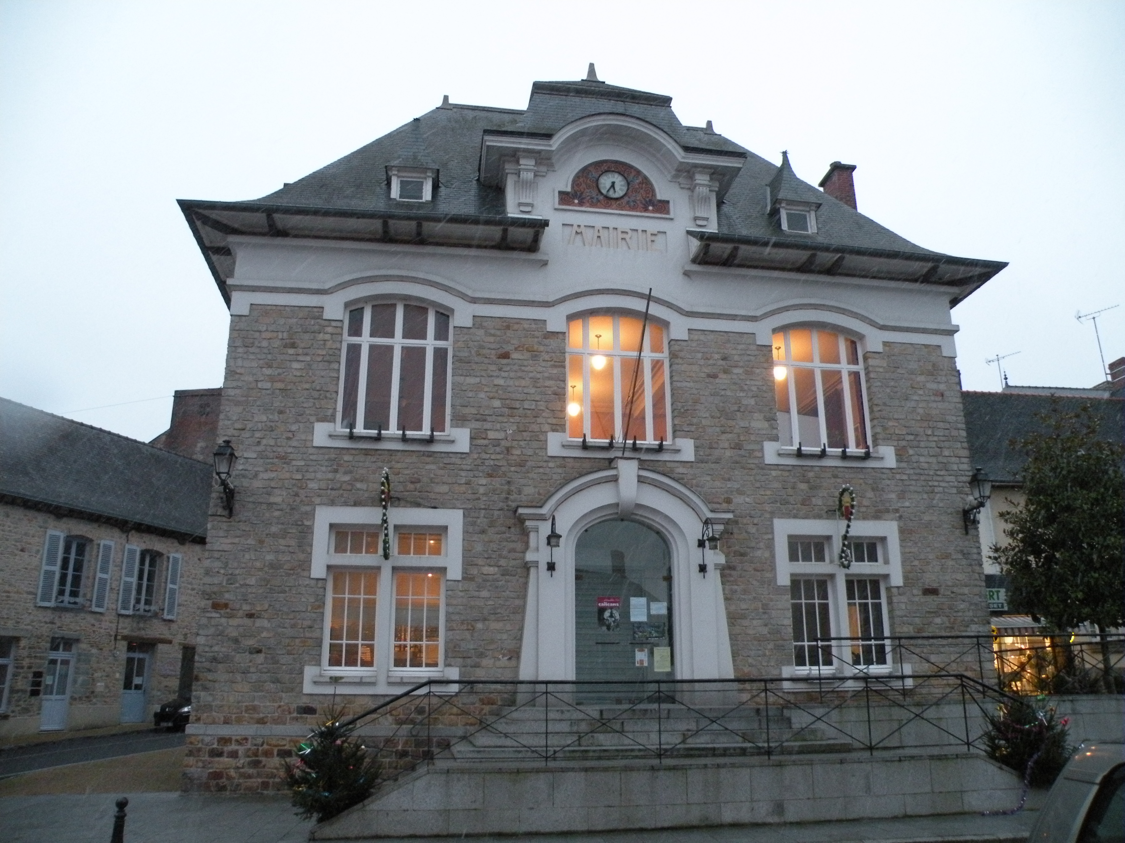 Town hall of Martigné-Ferchaud.